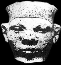 1st Dynastic King of Egypt, perhaps Narmer.